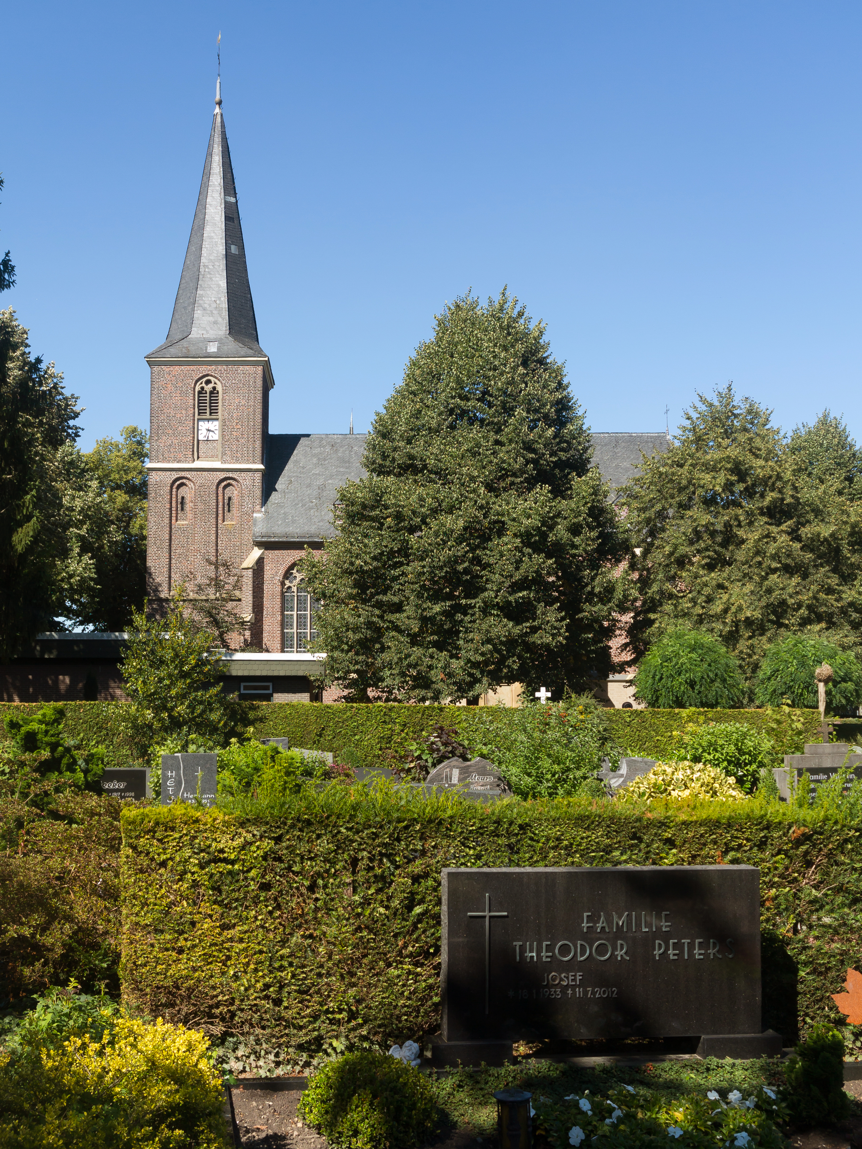 Veert, church - Sankt Martin KircheThis is a photograph of an architectural monument., no. GE10026